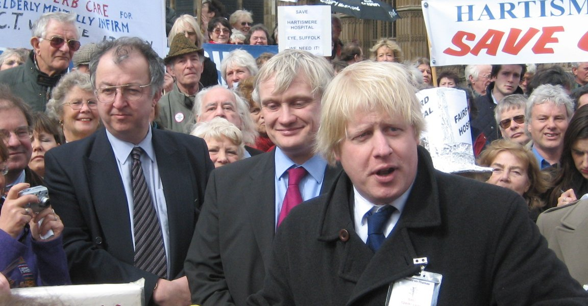 Boris Johnson, Conservative M.P. for Henley, with Liberal Democrat M.P. John Hemming at a demonstration against hospital closures